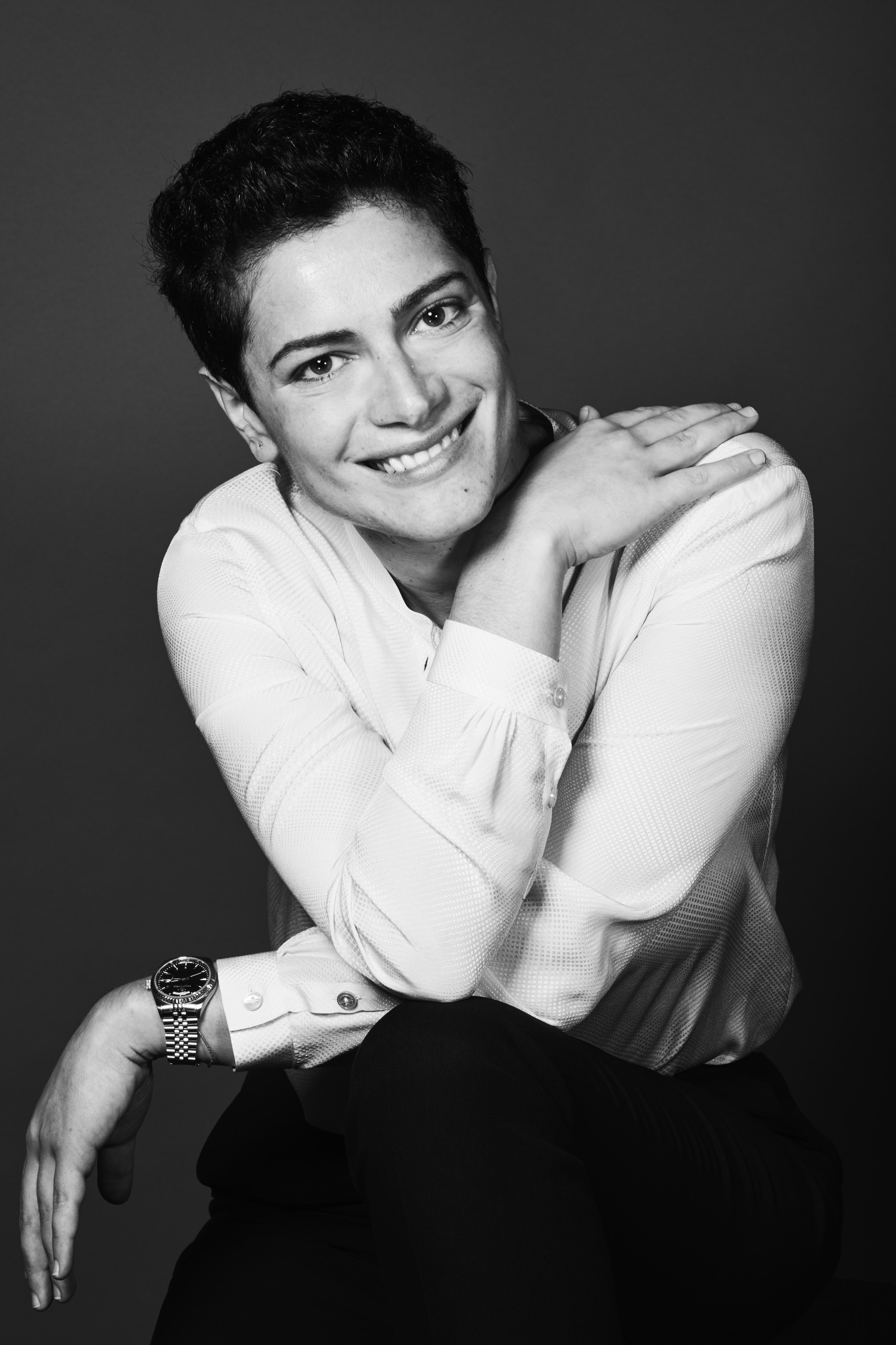 Francesca Cavallo portrait